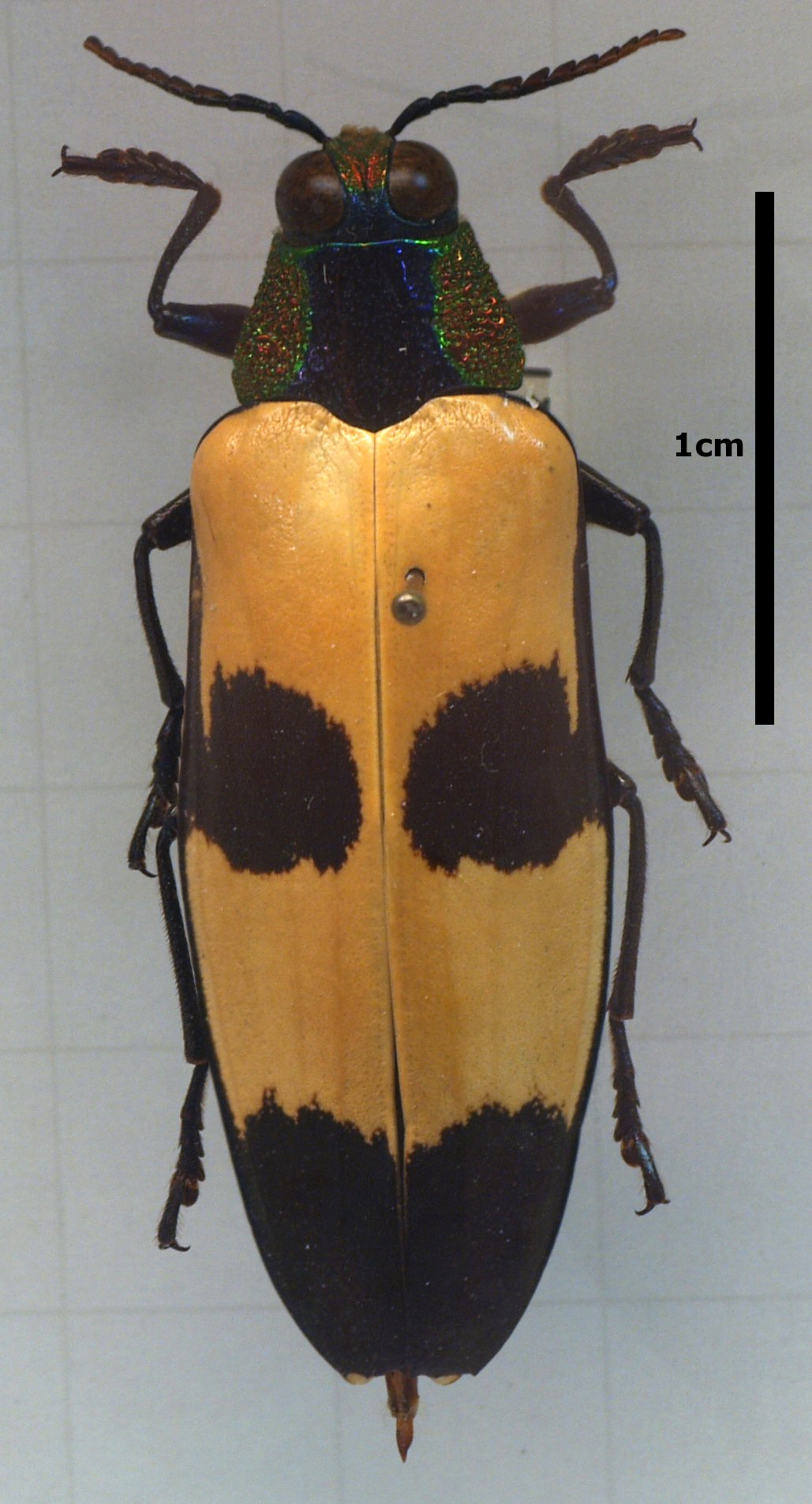 Chrysochroa buqueti from South Asia. Mounted specimen 2.